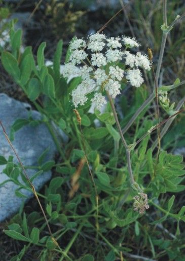 Laserpitium ochridanum